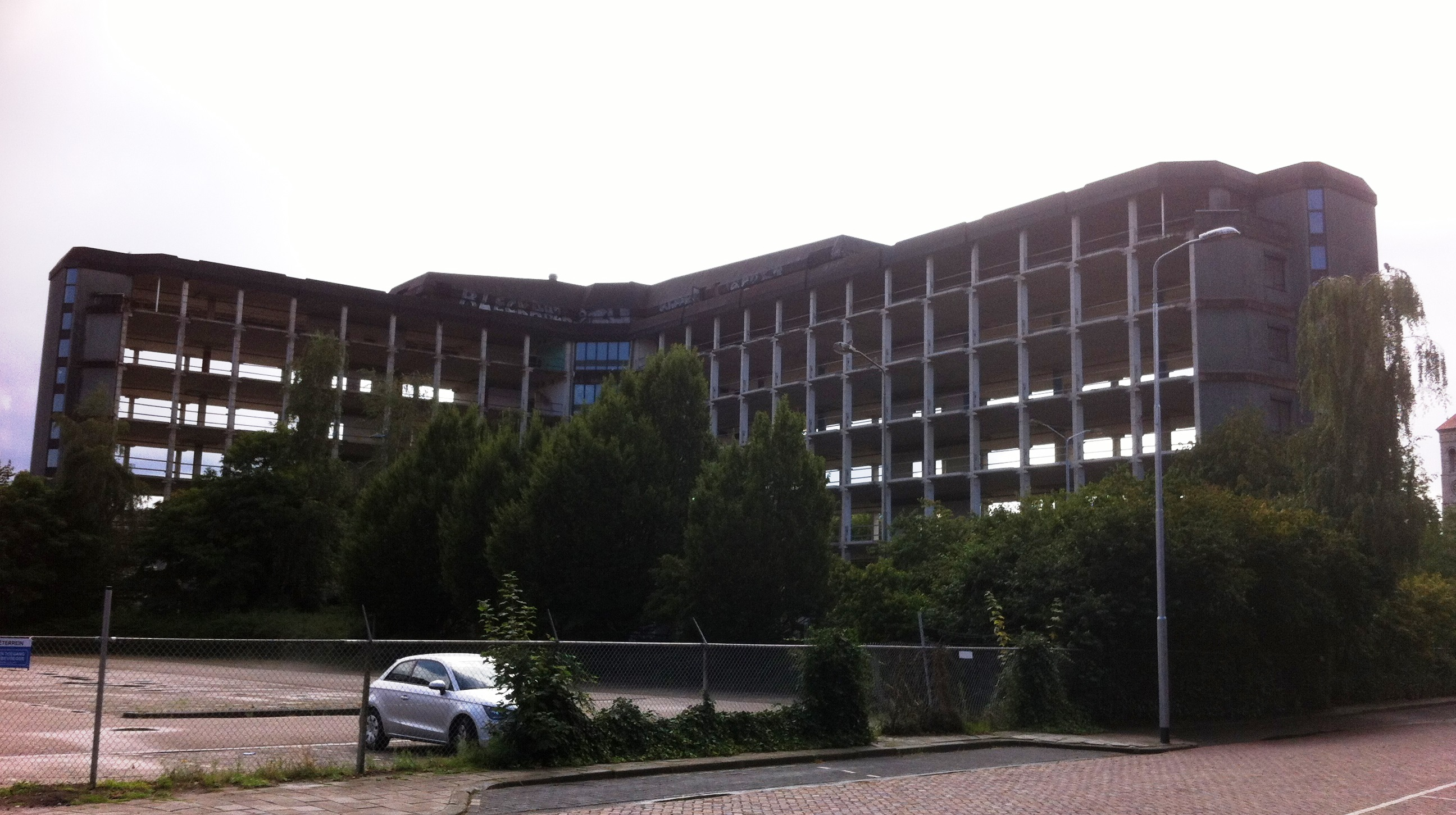 HCZ building, Eindhoven